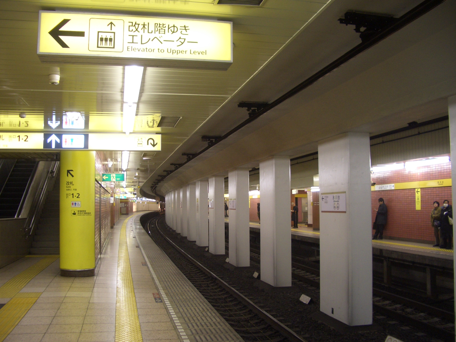 Hikawadai Station platform 2